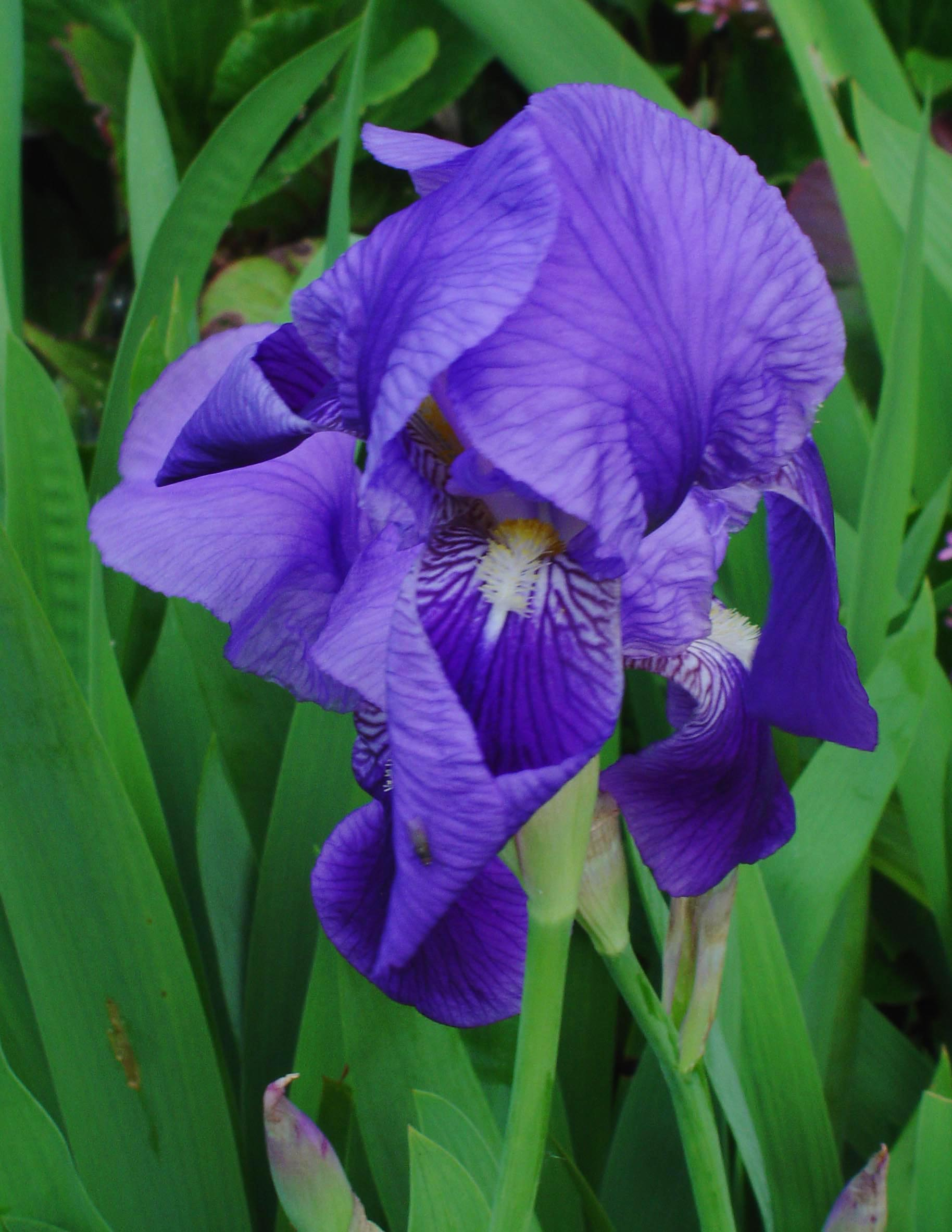 Name Iris Germanica Hybr. Family Iridaceae Photographer Isabelle Grosjean ZA Date 2004-04-29 License GNU FDL Camera Sony PSC-P92